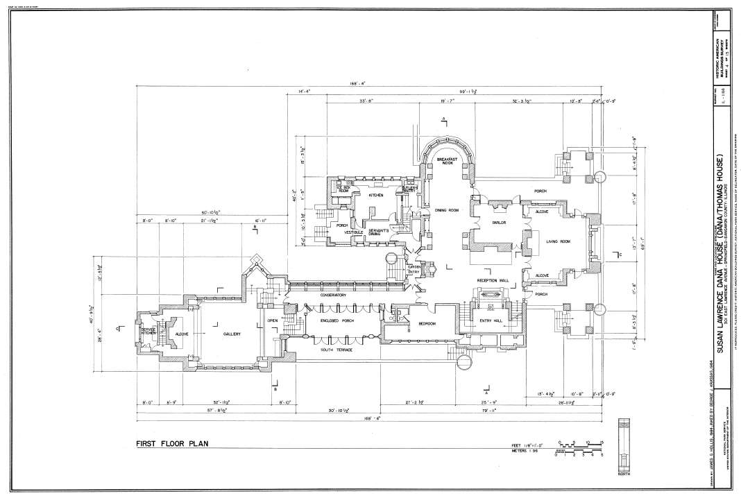 Dana-Thomas House (1902) 301 East Lawrence Avenue Springfield, Illinois Architect: Frank Lloyd Wright